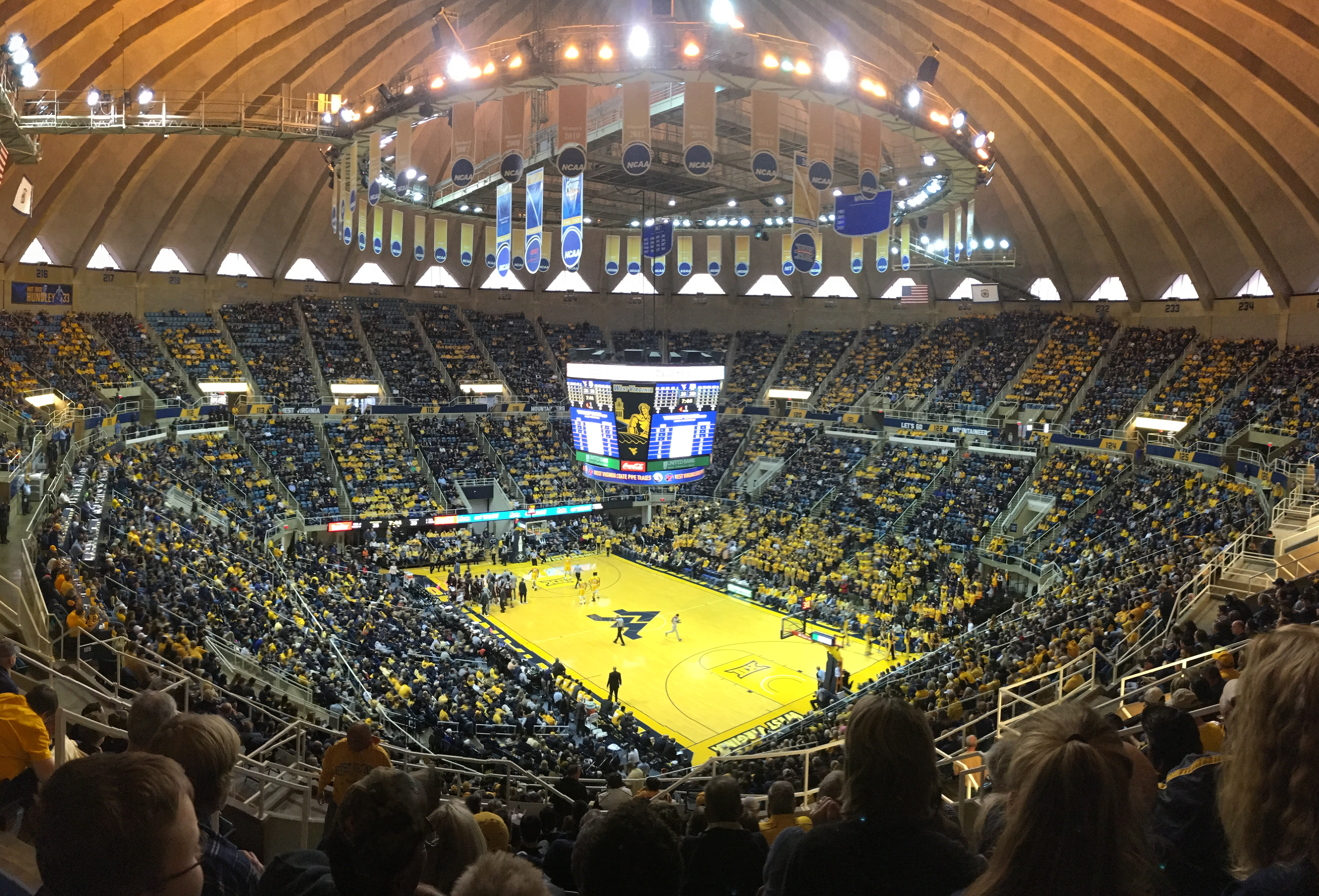 Inside the WVU Coliseum In Morgantown, WV January 28th, 2017.